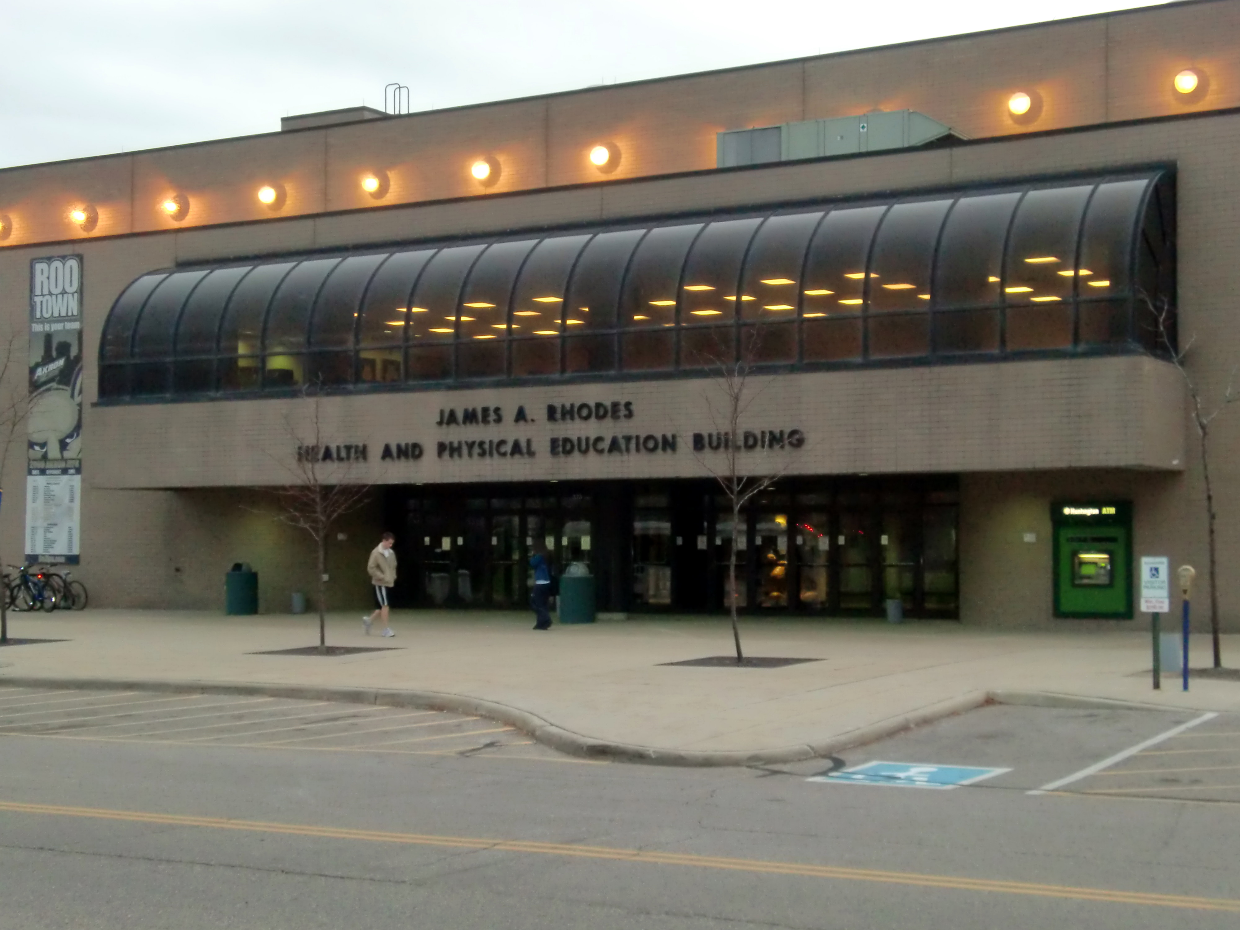 A view of the front of the James A. Rhodes Physical Education Building, also known as the James A. Rhodes Arena, or the JAR.